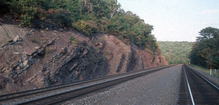 Outcrop of Irish Valley Member of the Devonian Catskill Formation along the Horseshoe Curve in Blair County, Pennsylvania. Photo taken and uploaded by James Stuby.